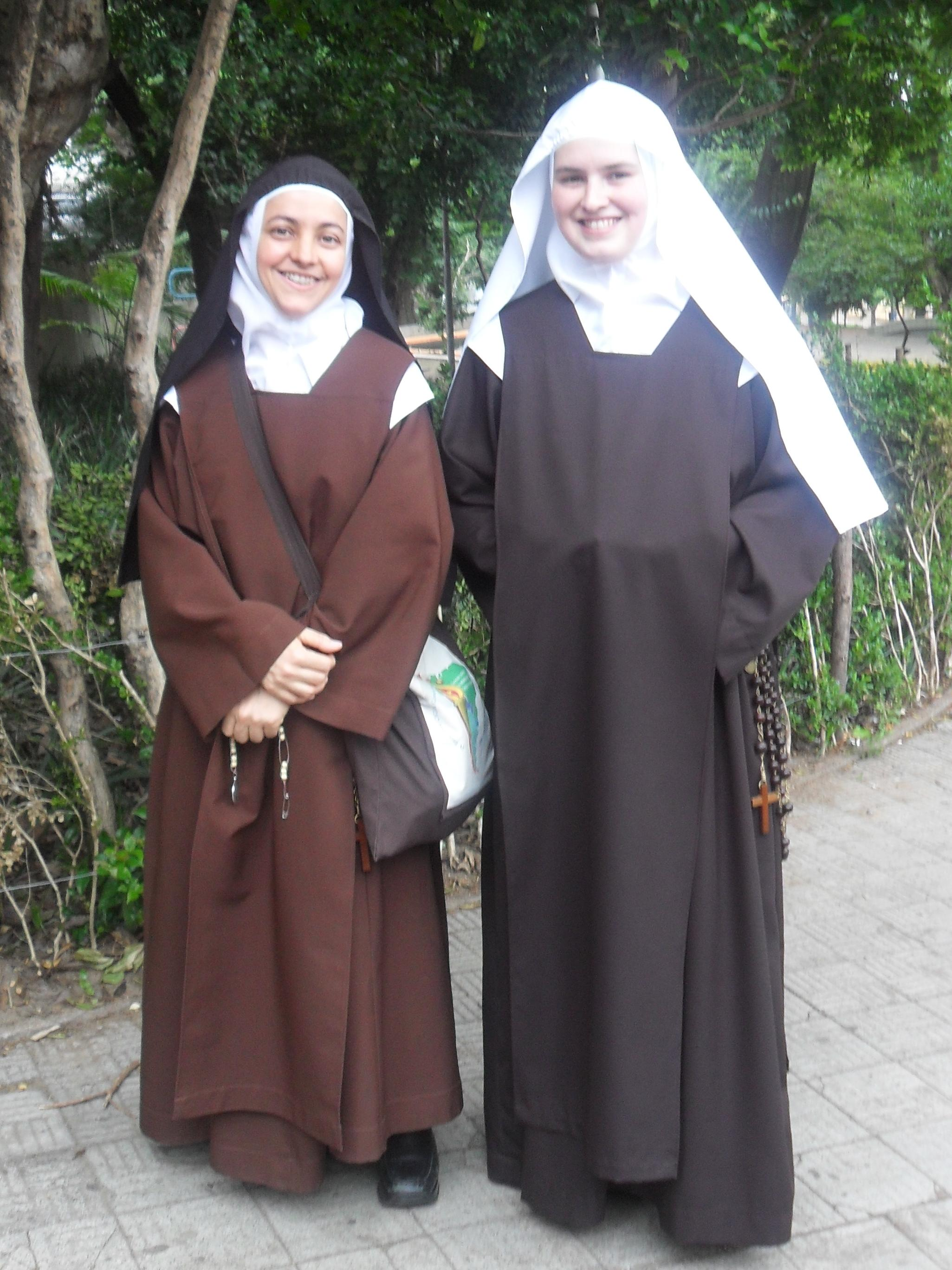 Nun and novice discalced carmelites in Porto Alegre, Rio Grande do Sul, Brazil (20101129)